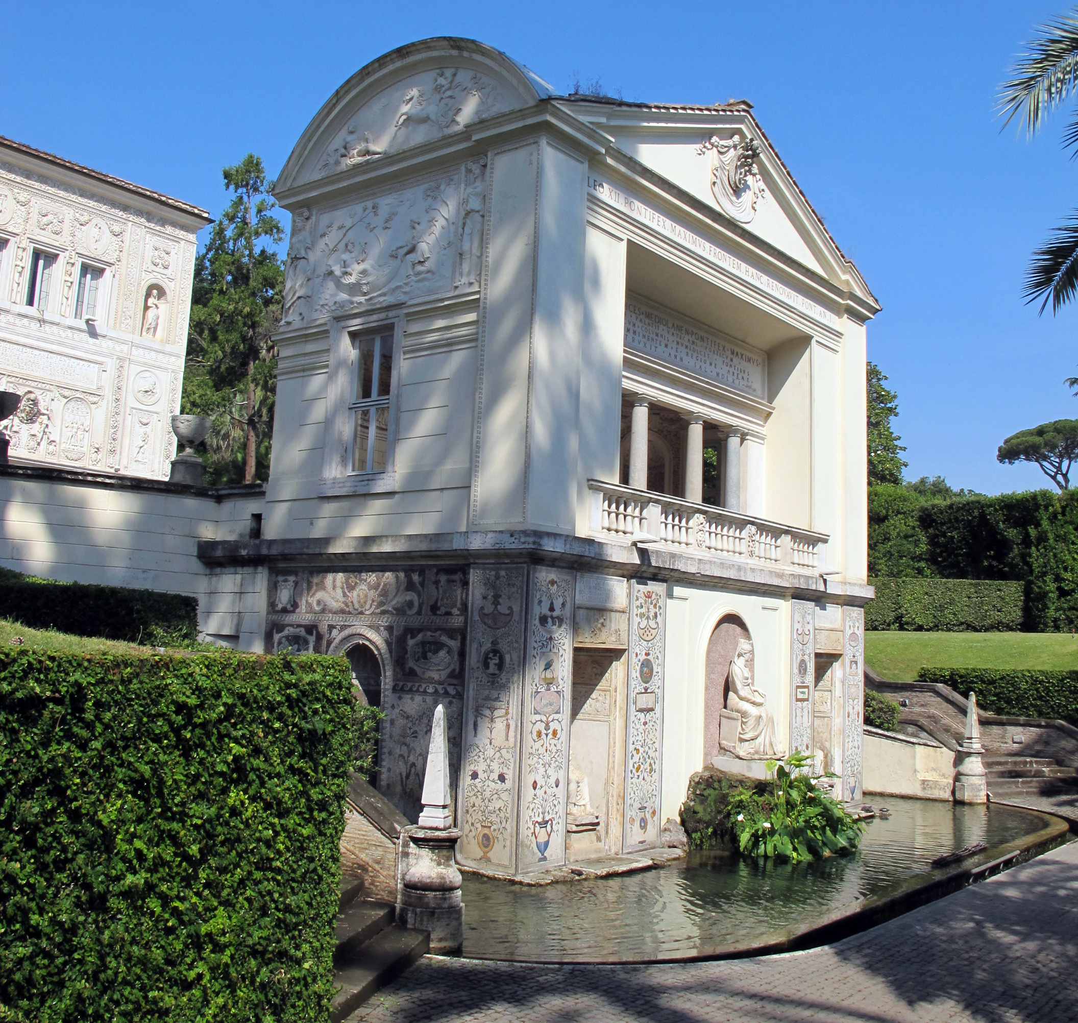 Pontifical Academy of Sciences